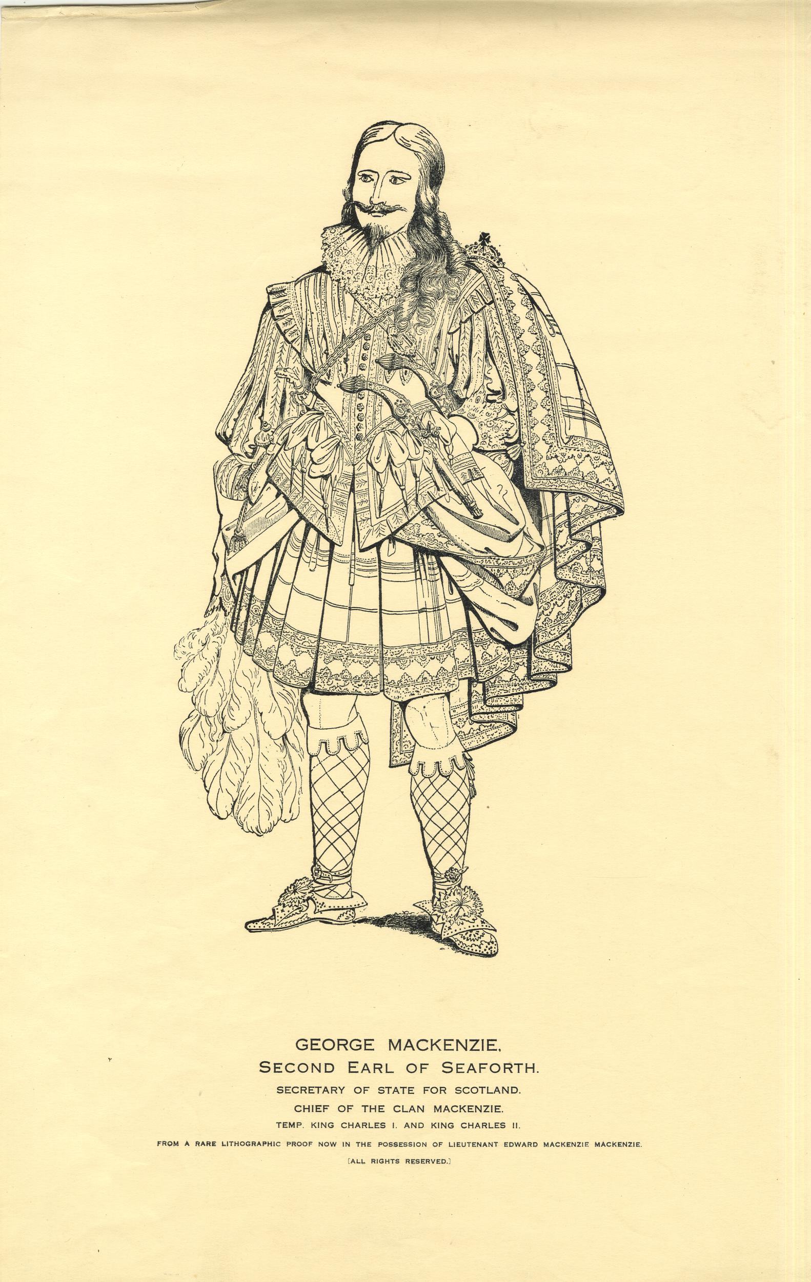 Portrait of George Mackenzie, 2nd Earl of Seaforth, whole length, standing to left, dressed in ornate cloak, doublet and kilt, holding plumed hat; after a lithographic proof. Lithograph